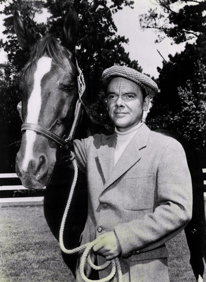 Photo of James McCallion as Mi Taylor and King from the premiere of the television program National Velvet.